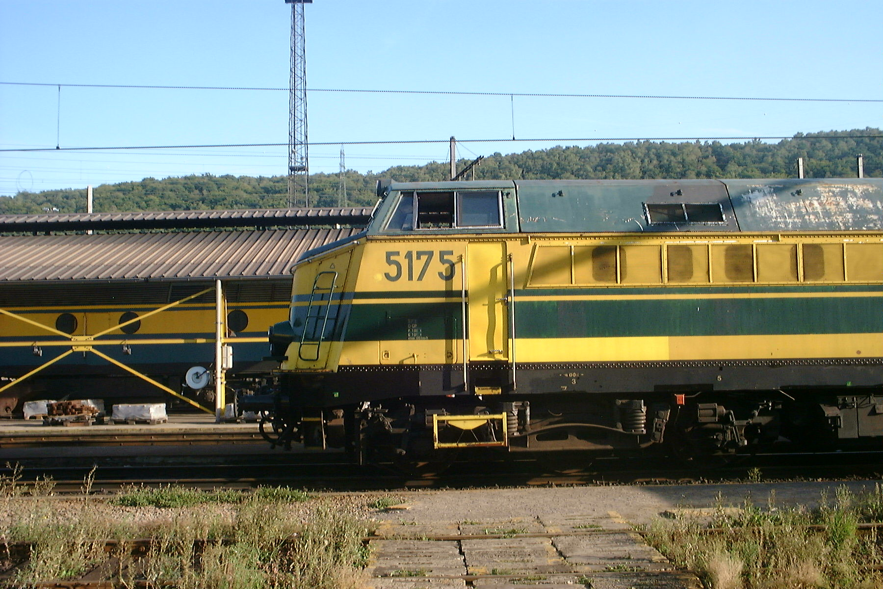 Sideview of a class 51 diesel locomotive